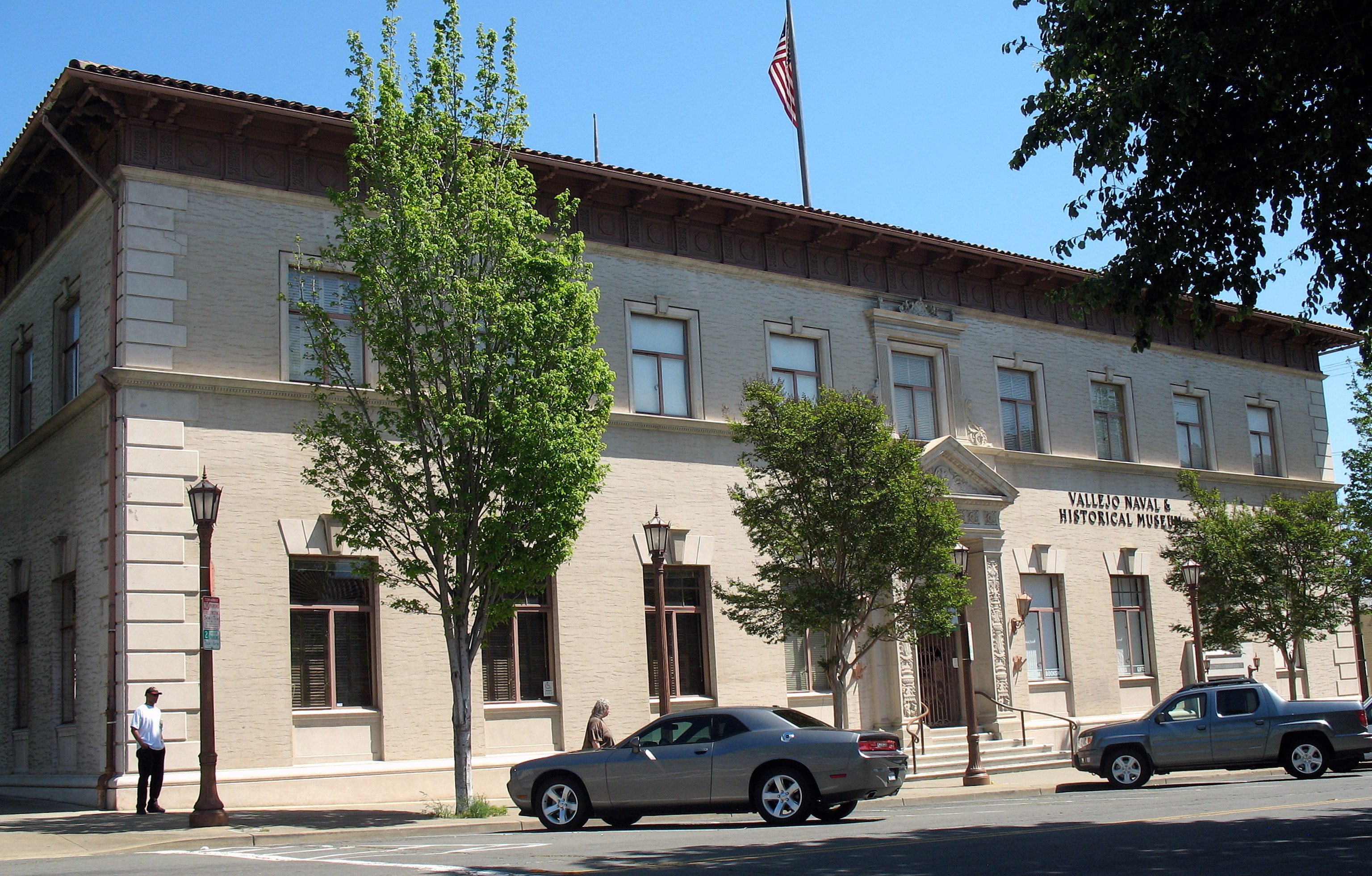 Vallejo City Hall and County Building Branch (now the Vallejo Naval and Historical Museum), 734 Marin St., Vallejo, California